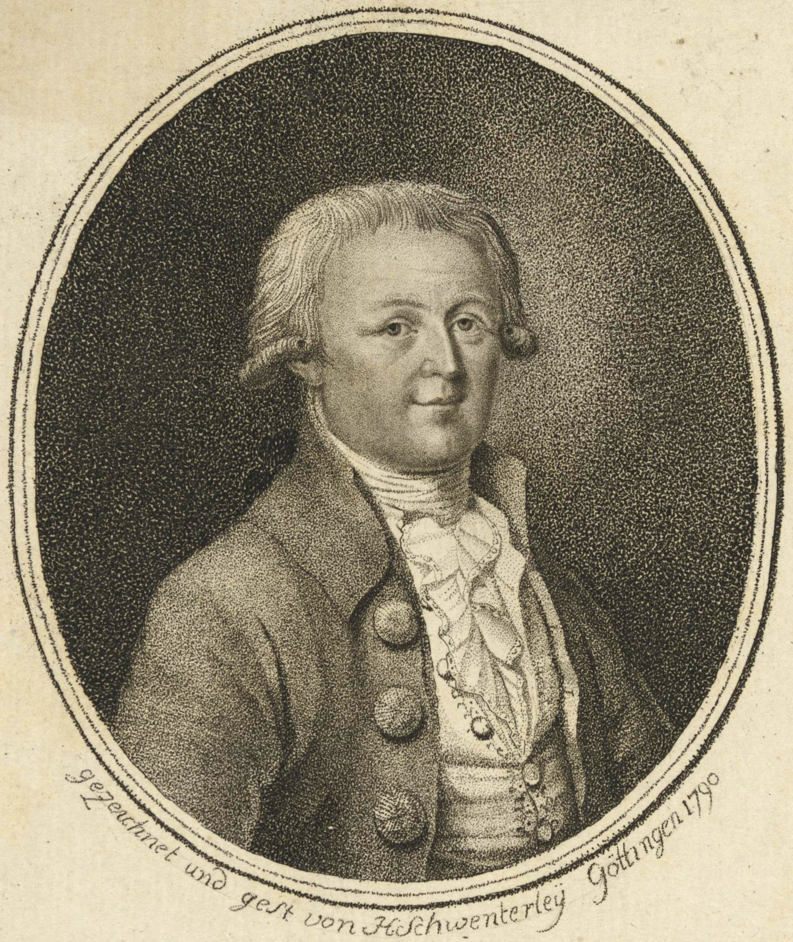 Depicted person: Johann Nikolaus Forkel